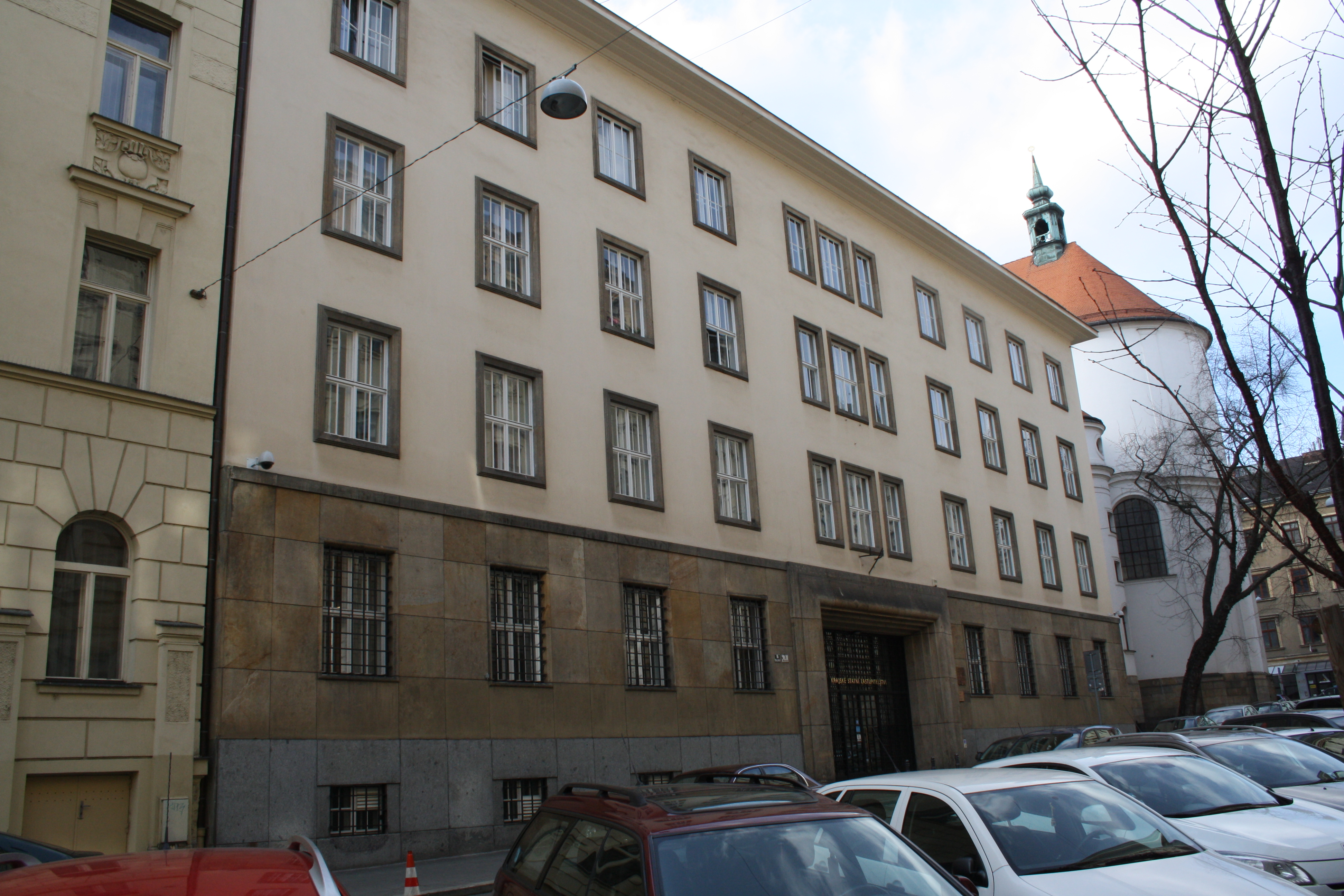 Regional attorney's office in Brno-Center..